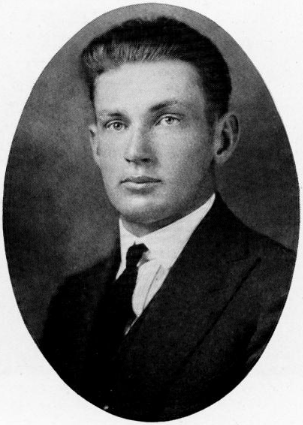 Sylvester E. Paulus, pictured in The Trail, Yearbook of Daniel Baker College, 1921, page 88